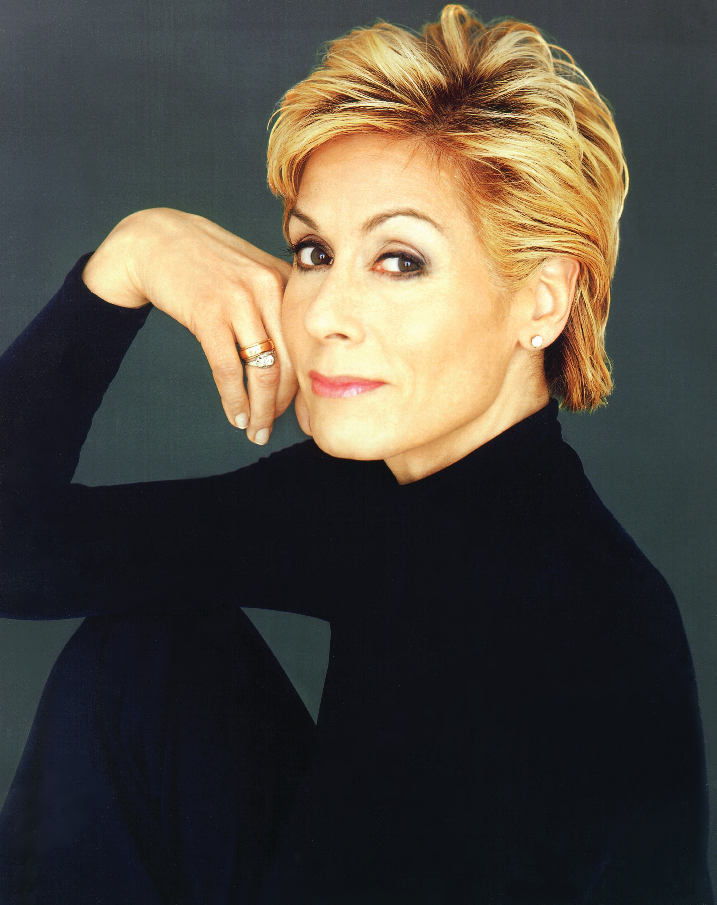 Judith Light, American actress